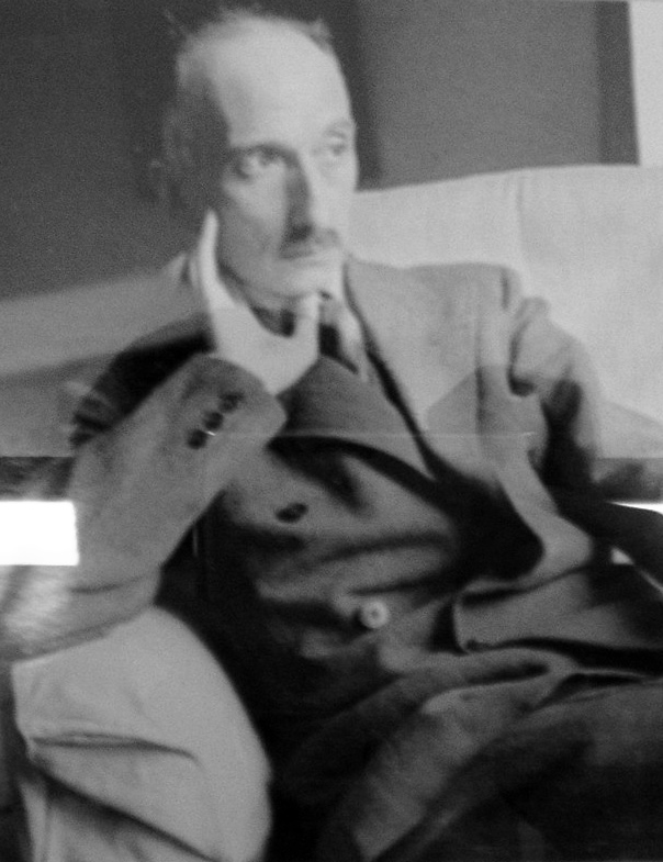 François Mauriac in 1932